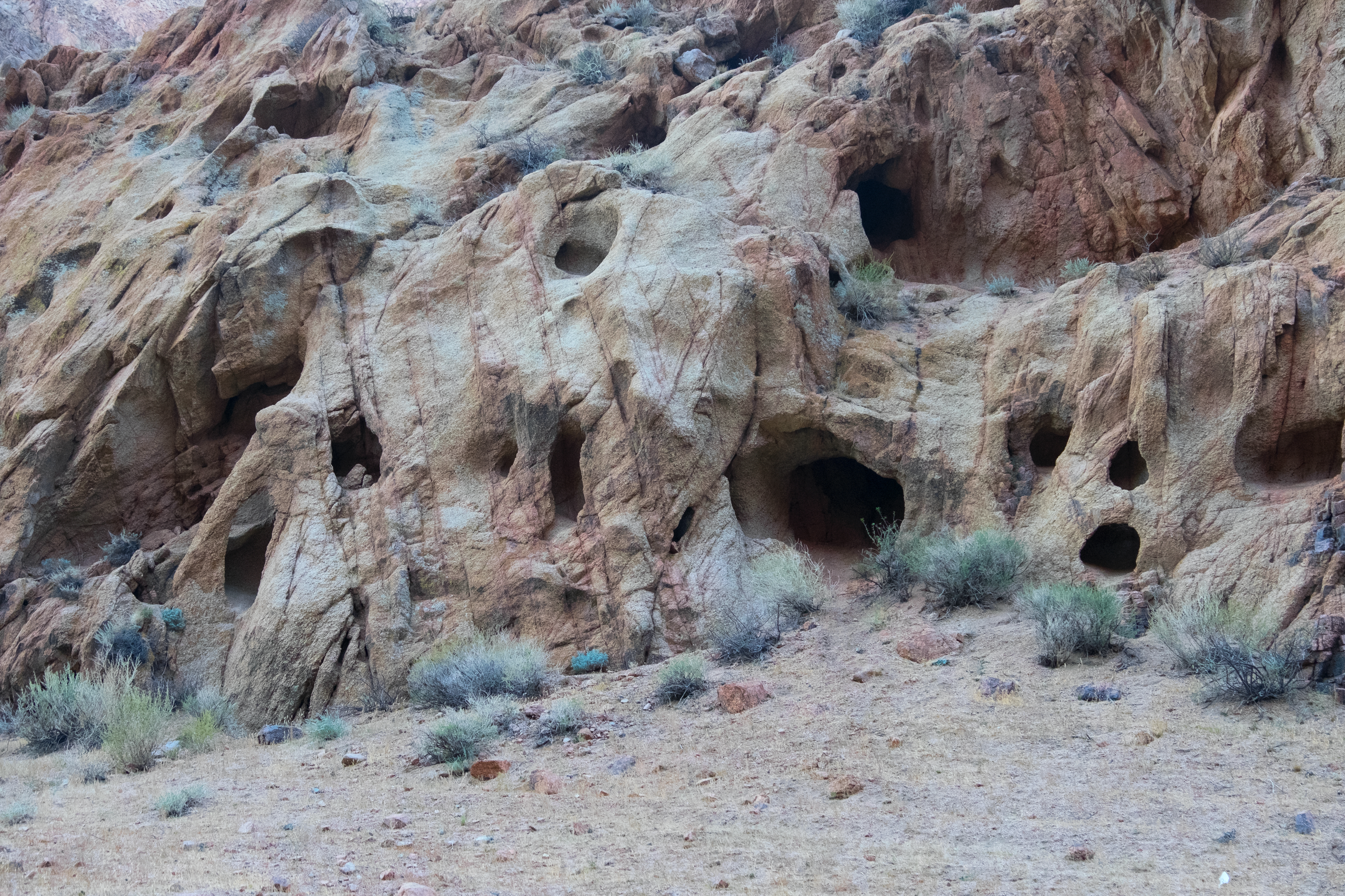 Wind or Aeolian erosion on rocks in the Khovd River Valley, in northwestern Mongolia